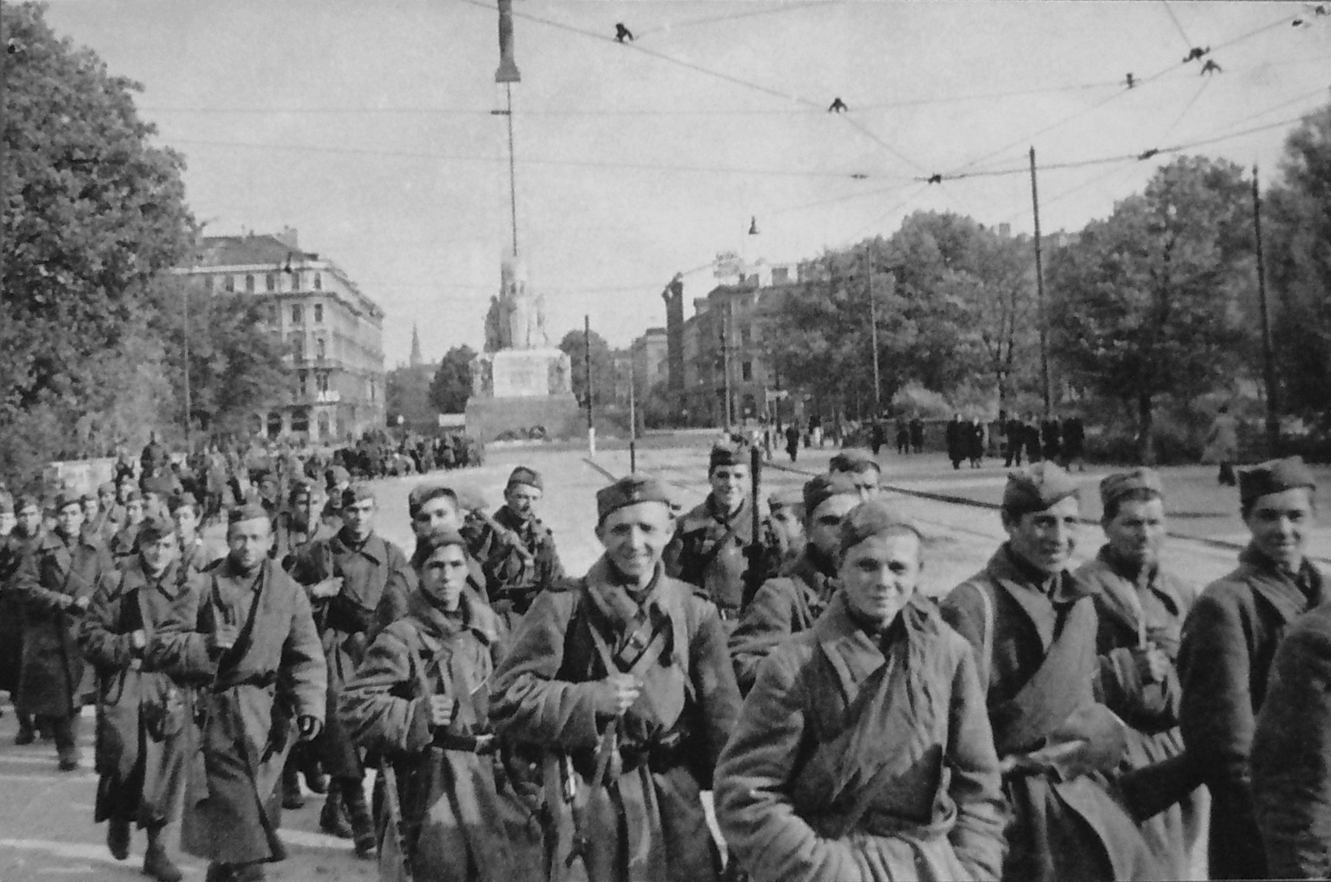 Soldiers of 130th Latvian Rifle Corps of the Red Army in Riga. October 1944.